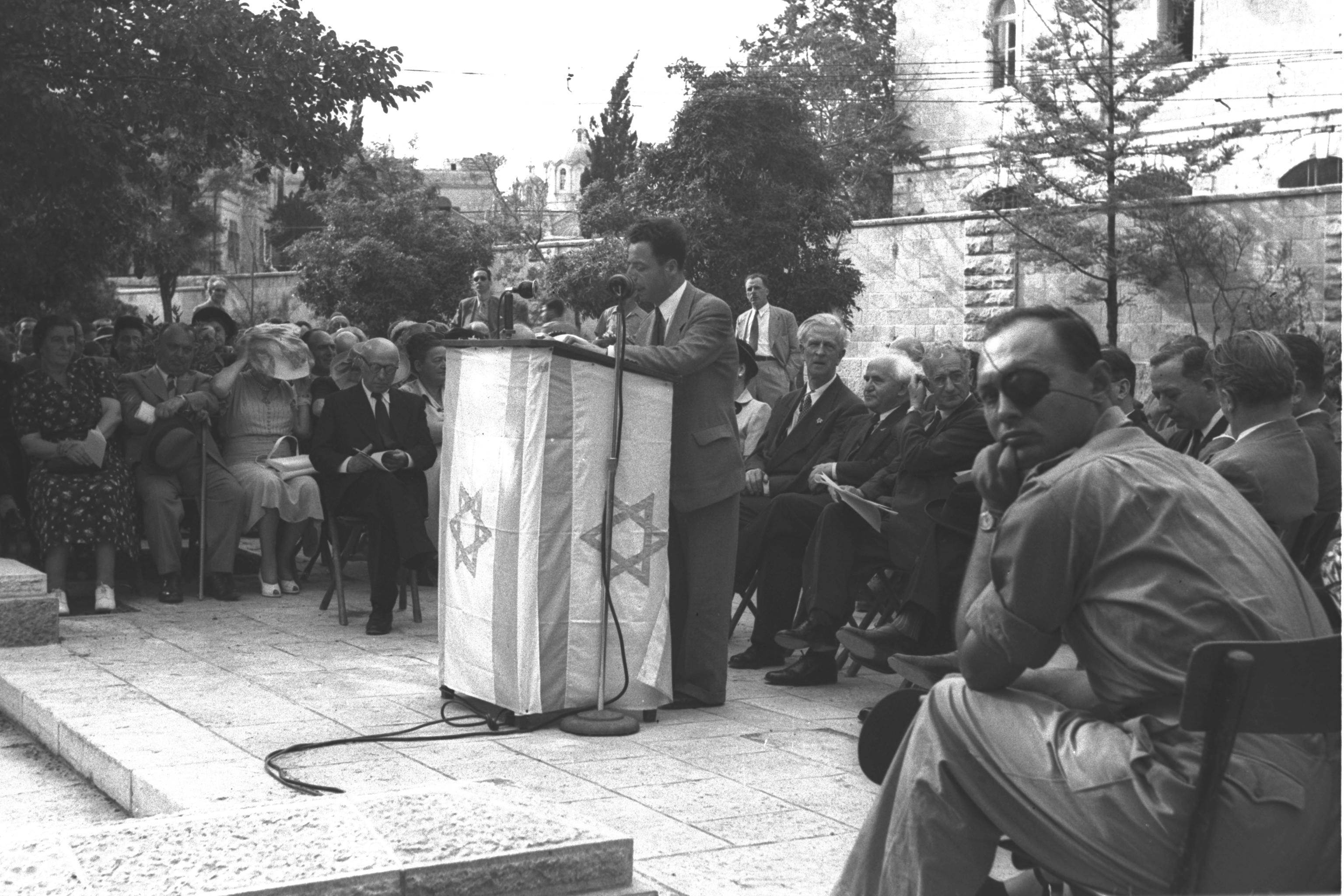 DR. ILAY DAVIS EXTENDS GREETING TO THE OPENING OF THE MEDICAL SCHOOL ON BEHALF OF THE HADASSAH HOSPITAL IN JERUSALEM.